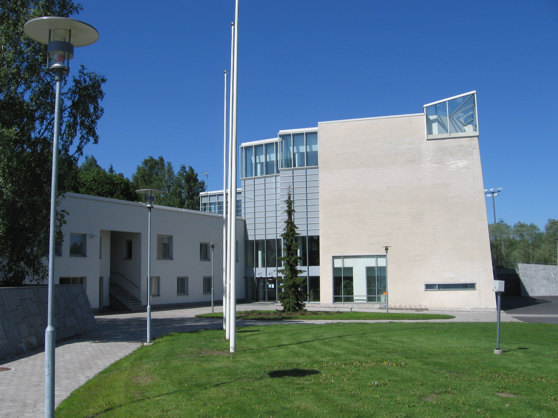 Hämeenkylä Church in Vantaa, Finland, designed by Olli Pekka Jokela and completed in 1992